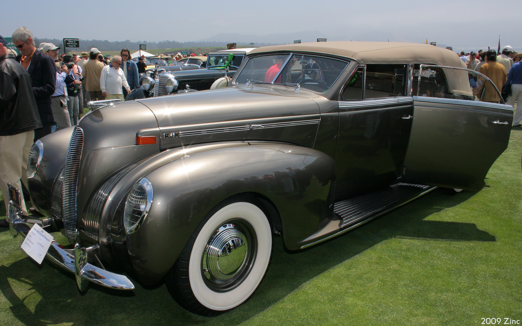 1938 Lincoln K, 145 in wheelbase; LeBaron 5-passenger Convertible Sedan with partition; one-off custom based on LeBaron style #413-A Pebble Beach Concours d'Elegance, Aug 16, 2009